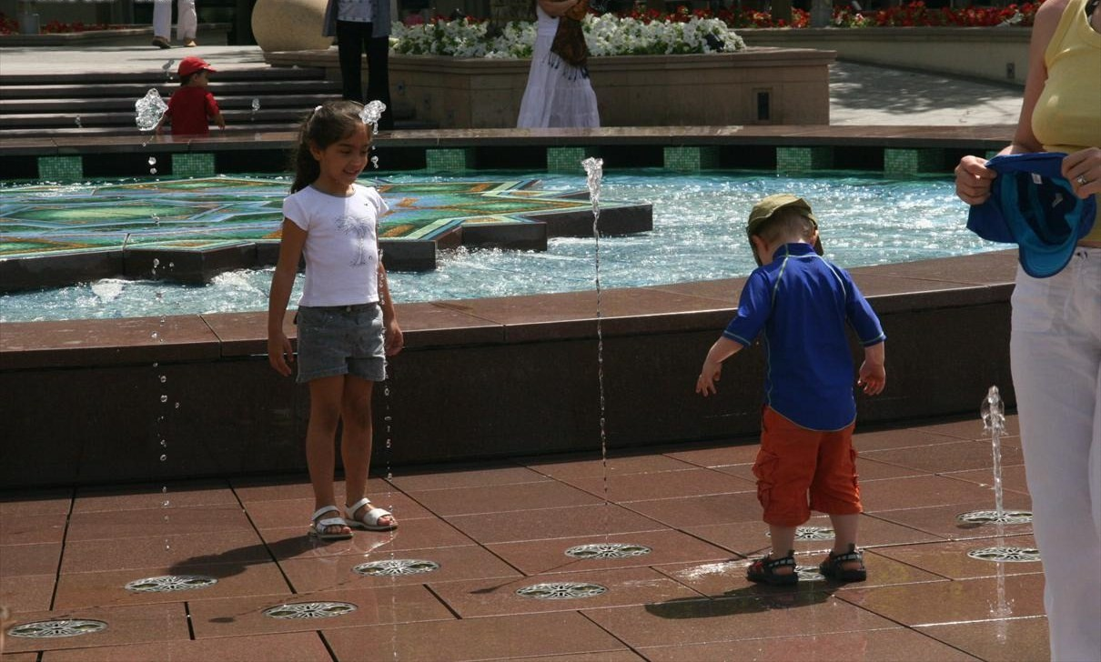 This is a photo showing children playing at the foundtains in Dubai Marina in Dubai, United Arab Emirates on 9 March 2007.